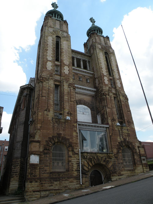 Picture of the National Carpatho-Rusyn Cultural and Educational Center located at 911 Dickson Street in Munhall, Pennsylvania, on August 7, 2010. Built in 1903, architect Titus de Bobula, it was the first St. John the Baptist Byzantine Catholic Cathedral, until a new cathedral was built in 1993 at 210 Greentree Road in Munhall. The 1903 cathedral pictured here was sold to the Carpatho-Rusyn Society, which is using it as a cultural and educational center, and it is on the List of Pittsburgh History and Landmarks Foundation Historic Landmarks.